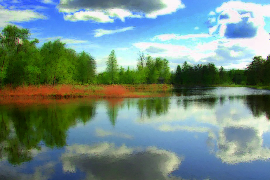 Dalarna in Sweden and by the lake where Carl Larsson lived, the painter.